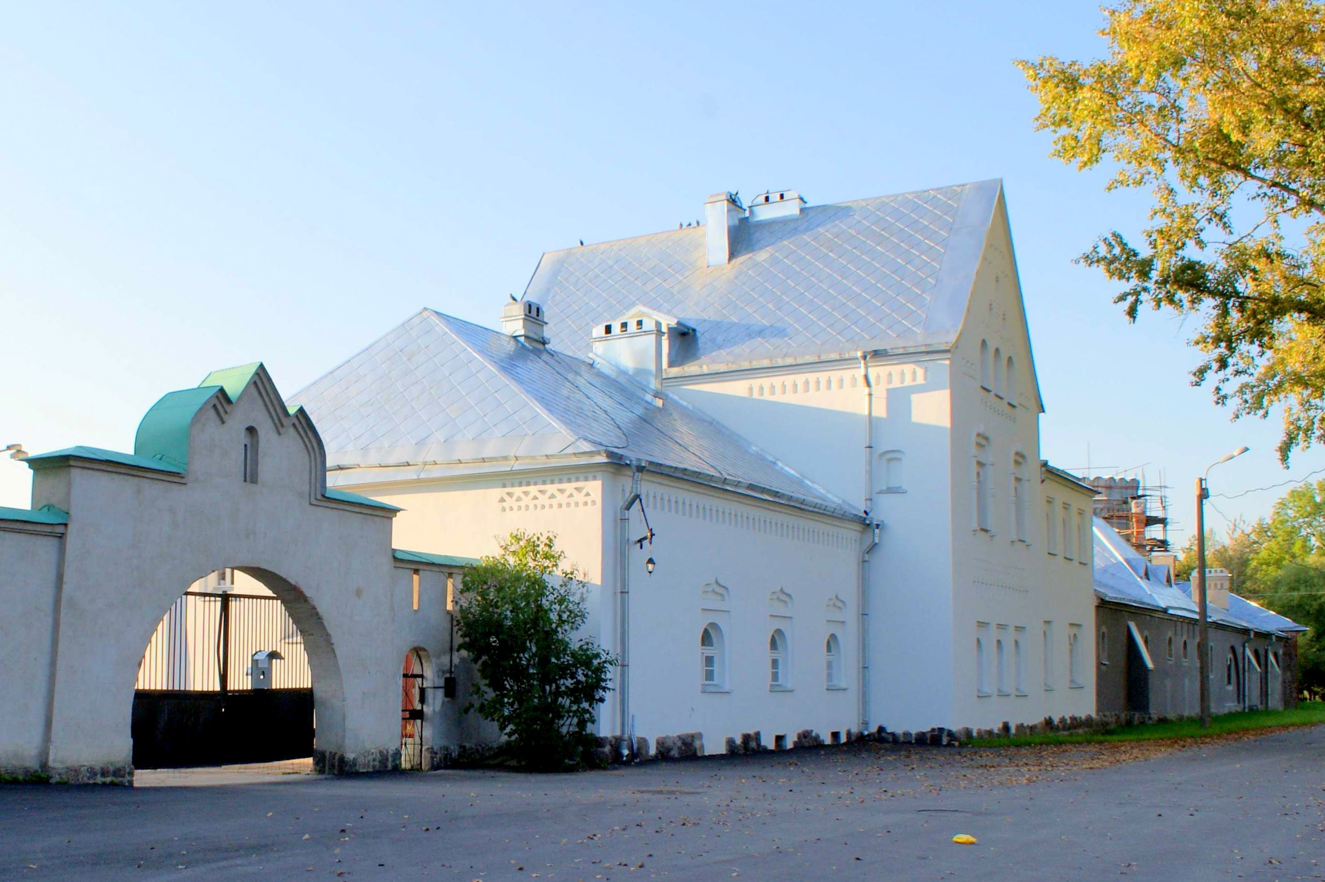 Feodorovsky gorodok in Tsarskoye Selo. The White chamber